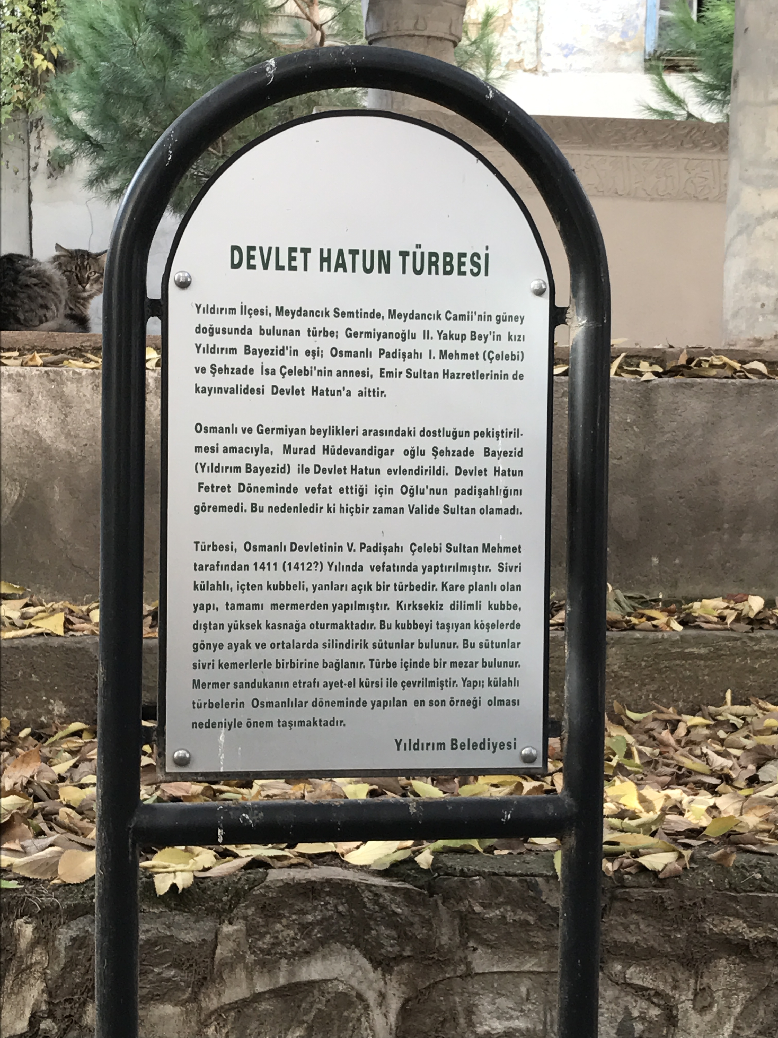 The tomb of Devlet Hatun: The tomb of Devlet Hatun stands alone in Bursa neighbourhoods separate from the mosque complexes that contained the tombs of the sultans and other members of the dynasty. The sign outside her tomb gives the following details: "It was built by Sultan Mehmed I. Devlet Hatun was the wife of Sultan Bayezid I and the mother of Sultan Mehmed I. She was the daughter of a Germiyanid prince. Her mother was the granddaughter of Mevlâna Celâleddini Rumi. Devlet Hatun died in 1412